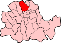 Map of the Metropolitan borough of Islington, former County of London.